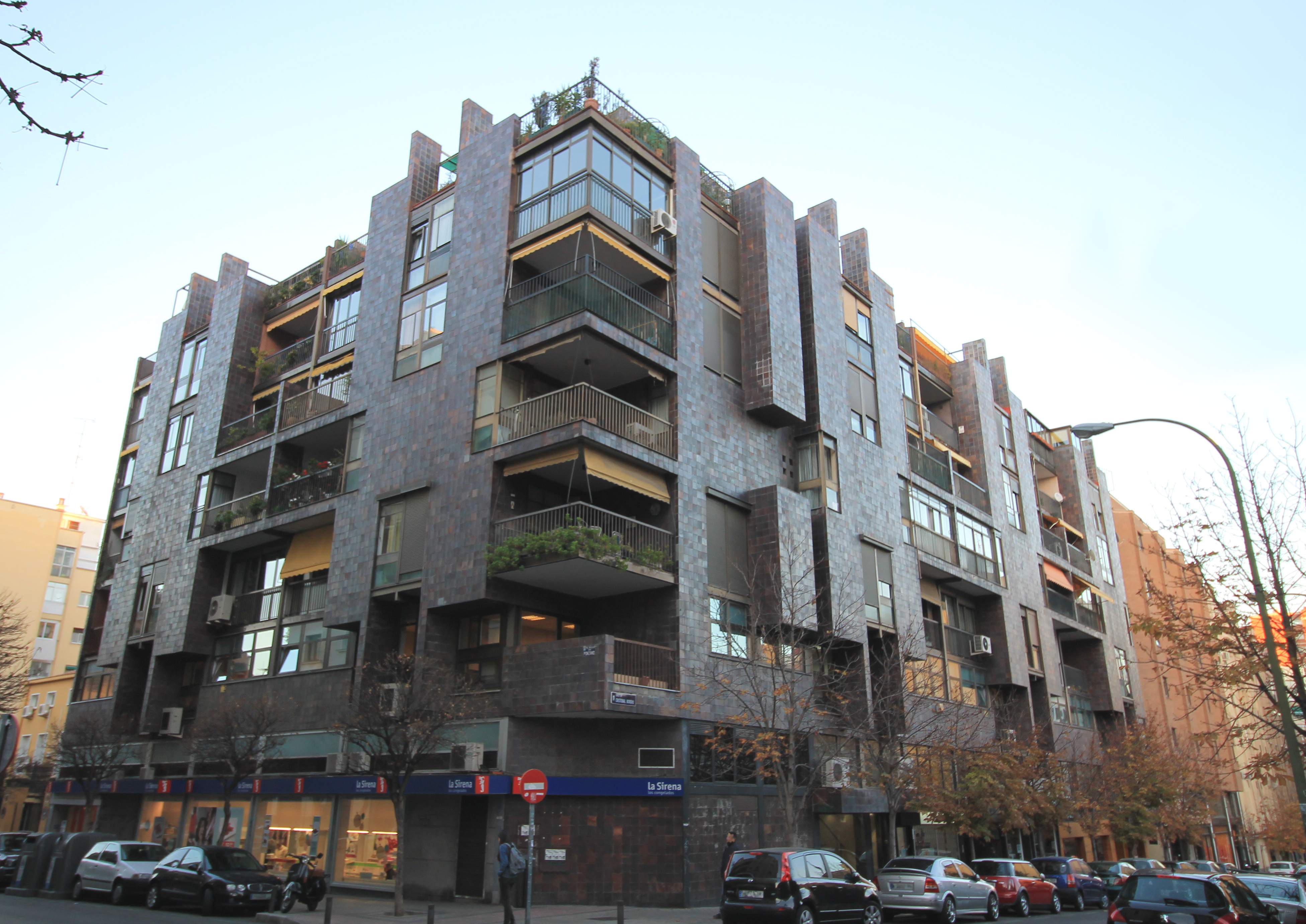 Housing building at 68 Calle de Ponzano (street) in Madrid (Spain). Designed in 1969 by Antoni Bonet and Manuel Jaén Albaitero.